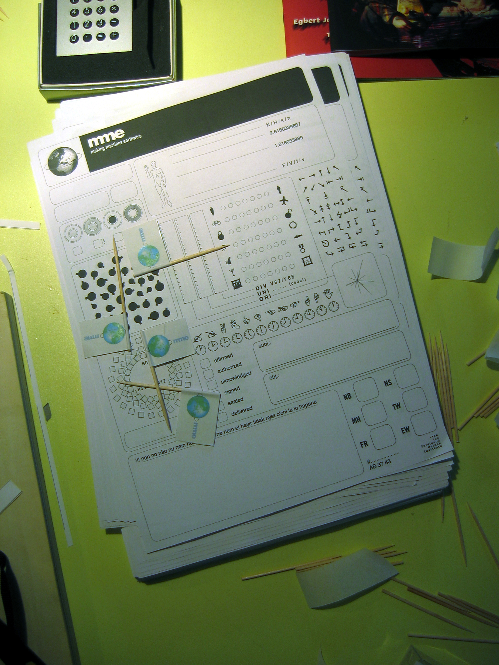 The questionnaire we used to select patients.